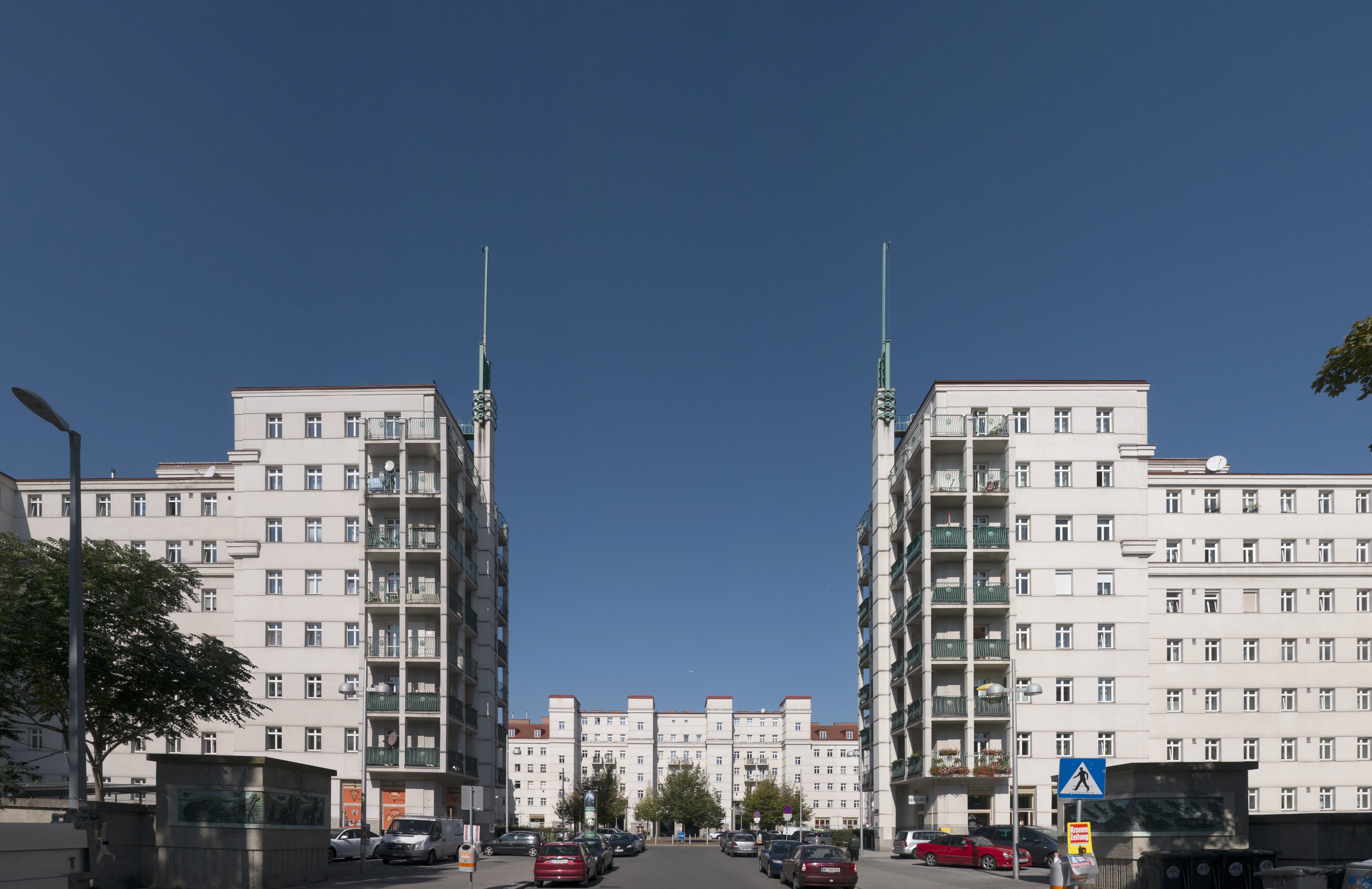 Communal housing project buildings “Engelsplatzhof” (“Engels-Hof”) at Friedrich-Engels-Platz 1-10, Brigittenau, Vienna, Austria